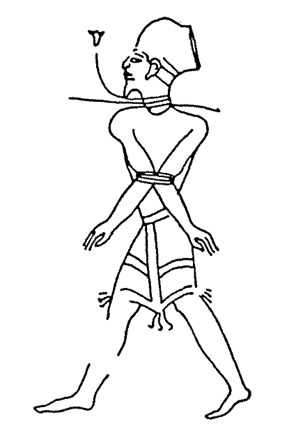 Representation of a captive shasu